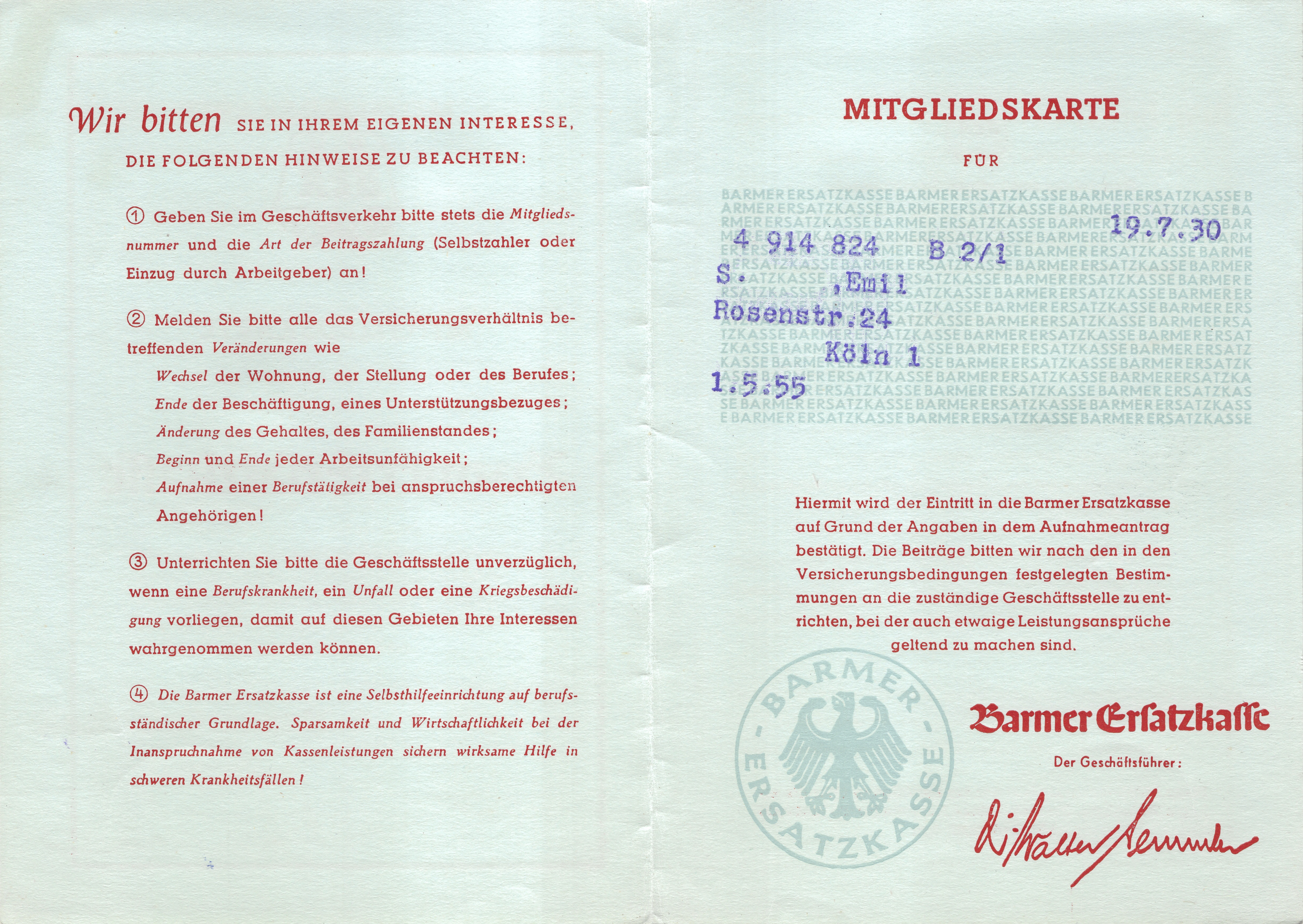 Cologne, Germany: Membership card of the health insurance "Barmer Ersatzkasse", issued by the company's district administration Cologne in the year 1955.